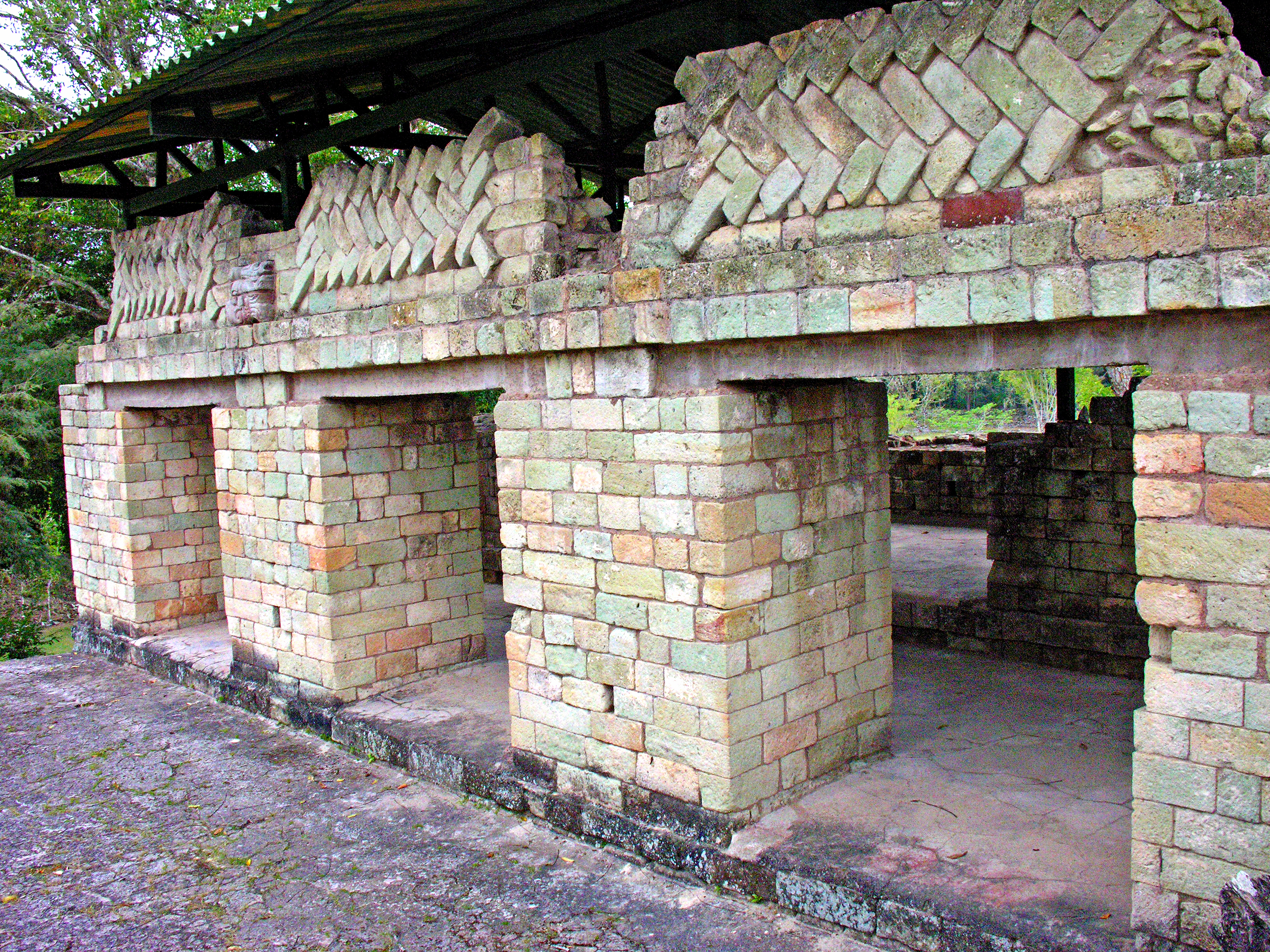 The Popol Nah or Council House is on the west side of 18 Rabbit's temple. It has distinctive great mats carved in mosaic stone that decorate the upper surfaces of the building.